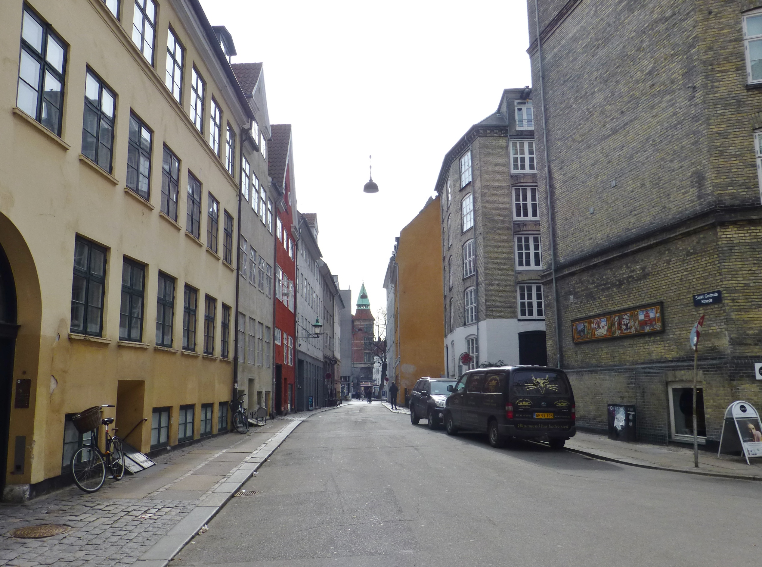 The street Sankt Gertruds Stræde in Indre By in Copenhagen.